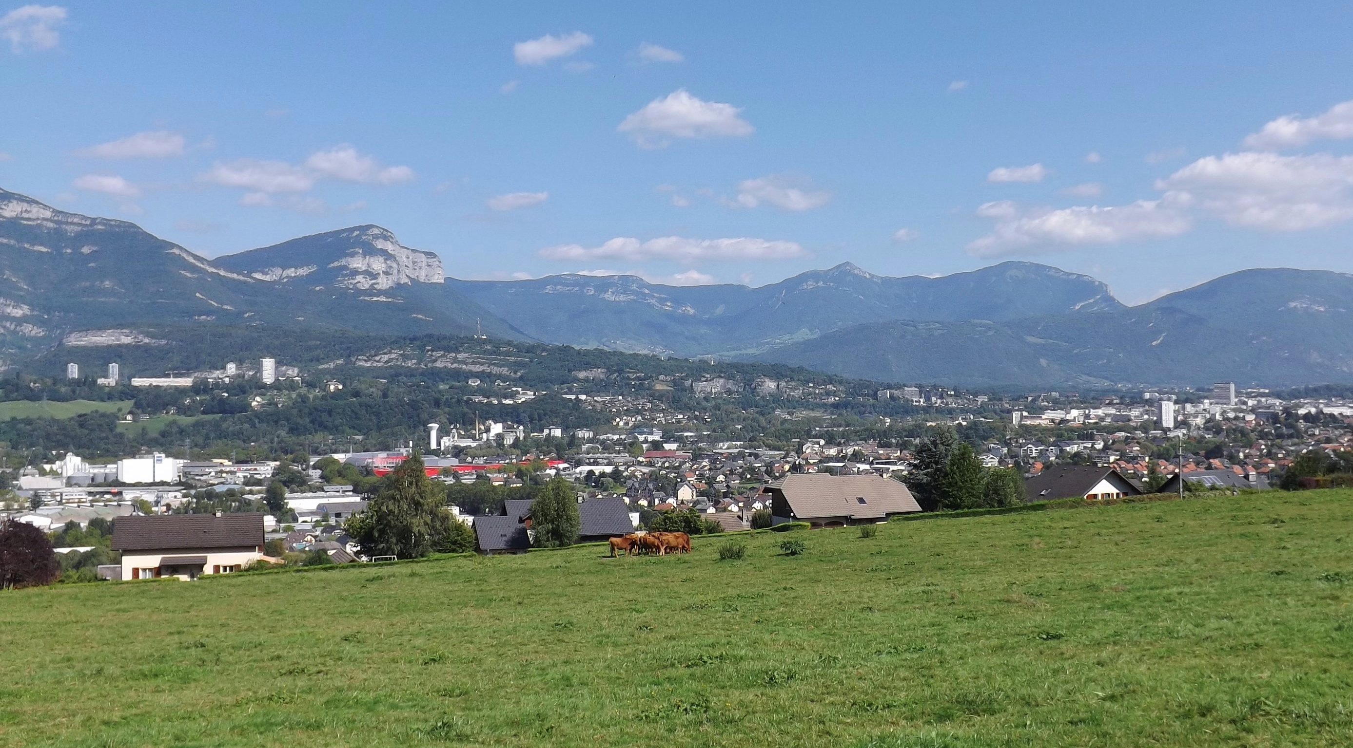 Panoramic sight on the French city of Chambéry in Savoie, from the Chamoux mount. At the background can also be seen the Bauges mountains.